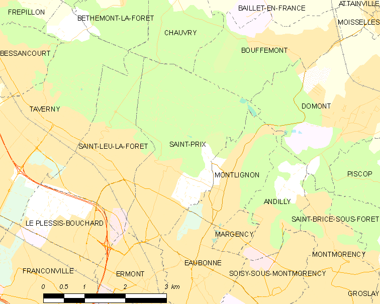 Map of French municipality Saint-Prix